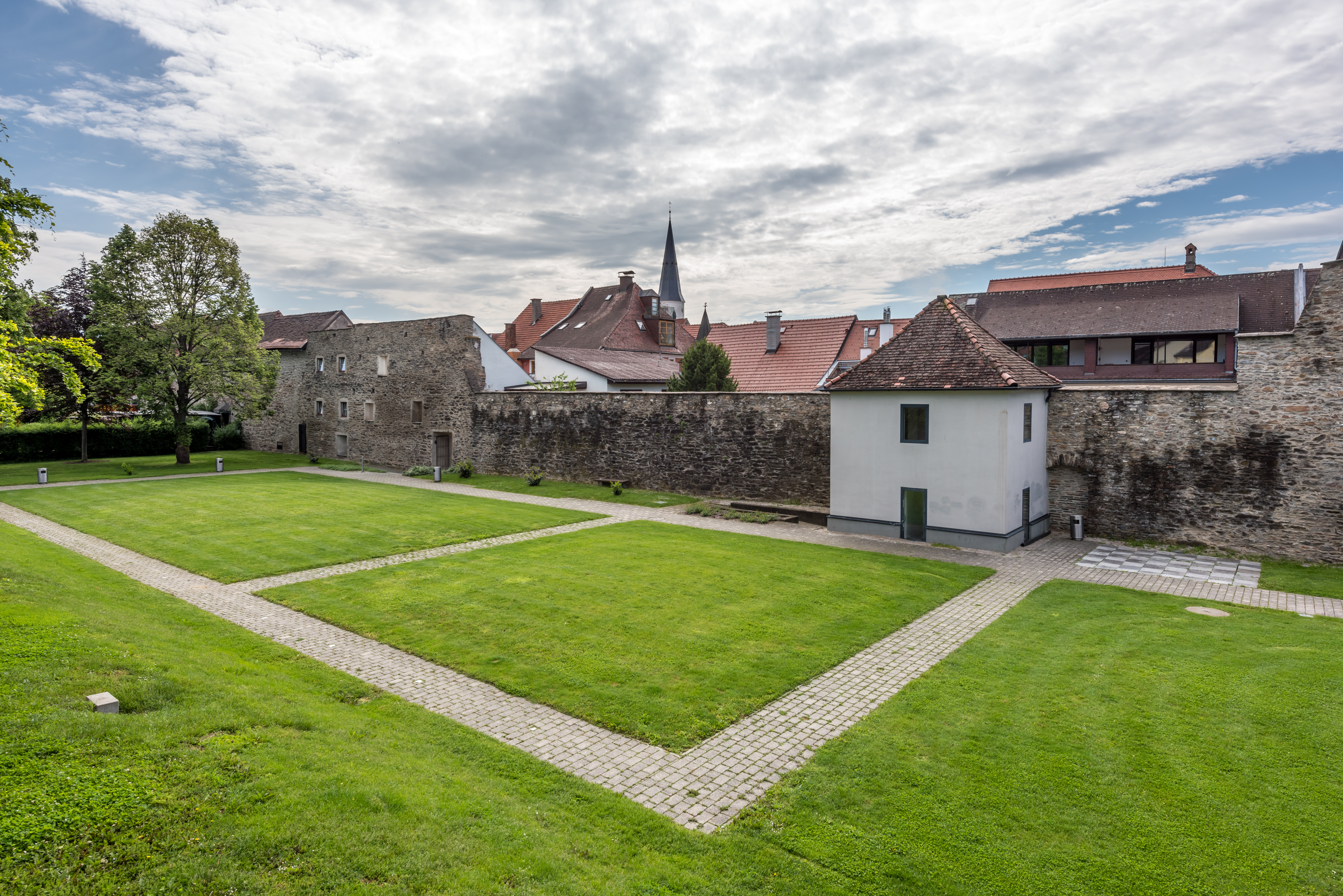 Moat garden at the fortification on the north side of the old city, city of St. Veit an der Glan, district Sankt Veit, Carinthia, Austria, EU